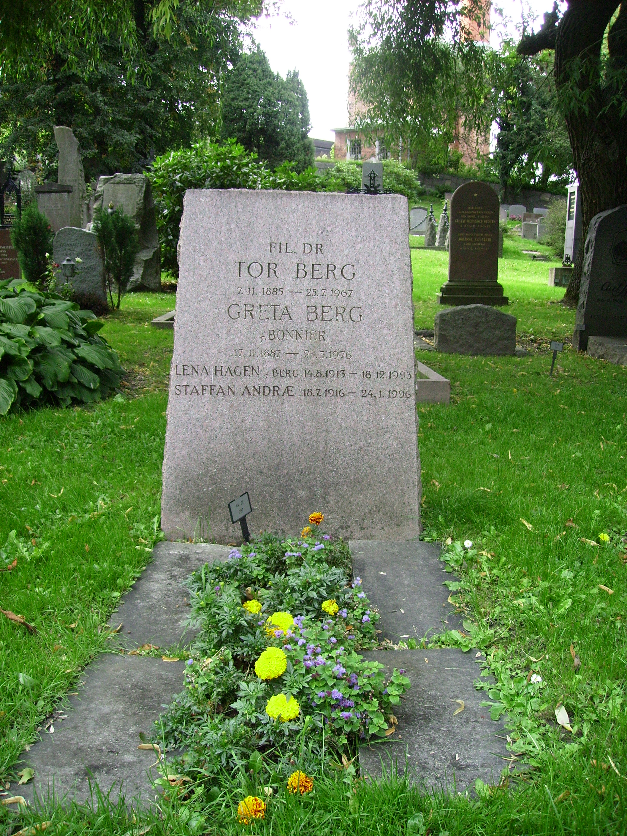 Picture of Tor Berg's grave at Galärvarvskyrkogården in Stockholm